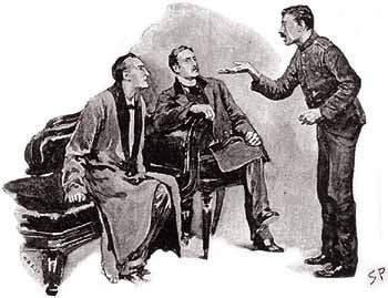 Illustration of the Sherlock Holmes short story The Blue Carbuncle, which appeared in The Strand Magazine in January, 1892. Original caption was "SEE WHAT MY WIFE FOUND IN ITS CROP!"